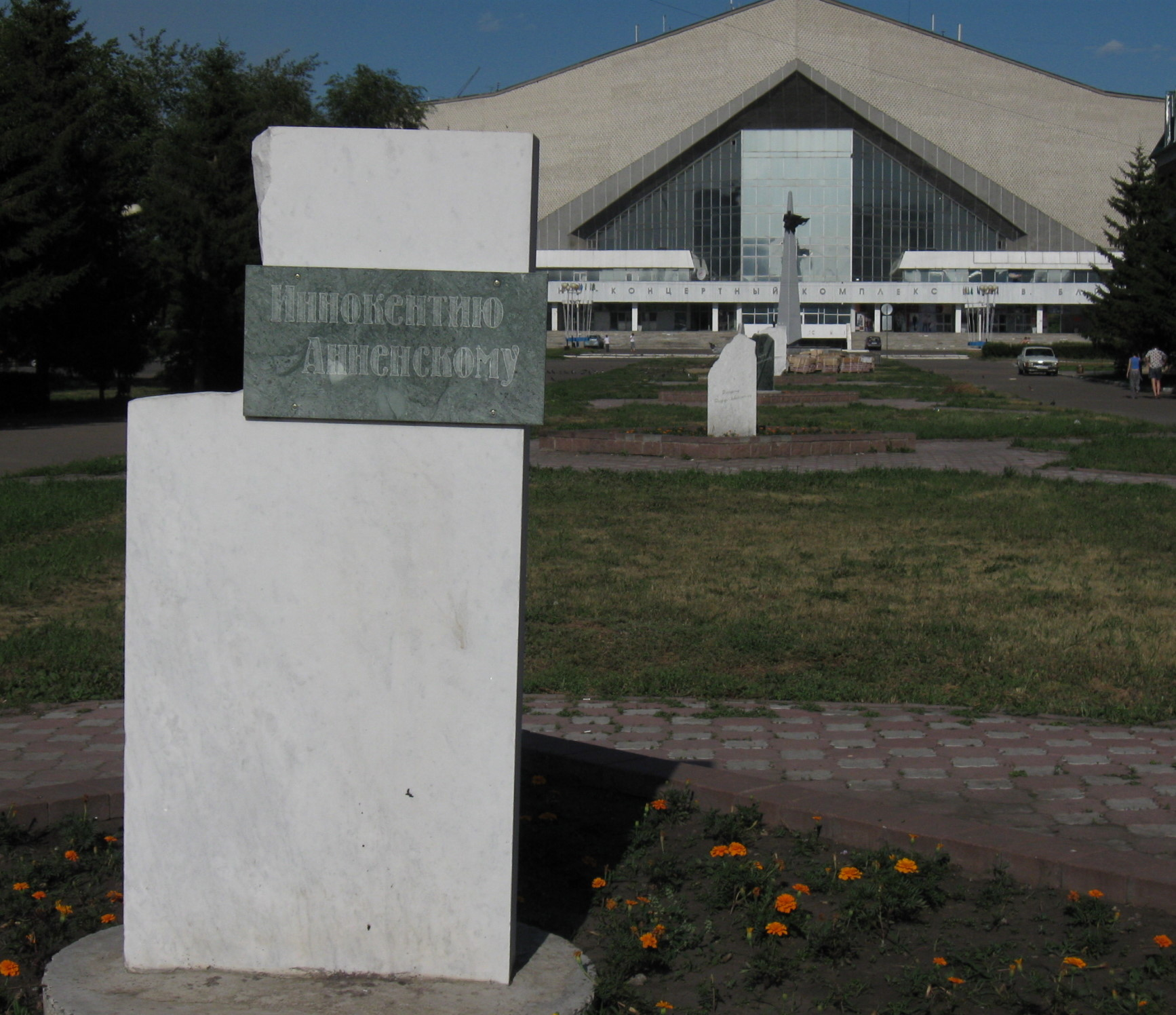 Memorial stone to Russian poet Innokenty Annensky in Omsk city, Russia.